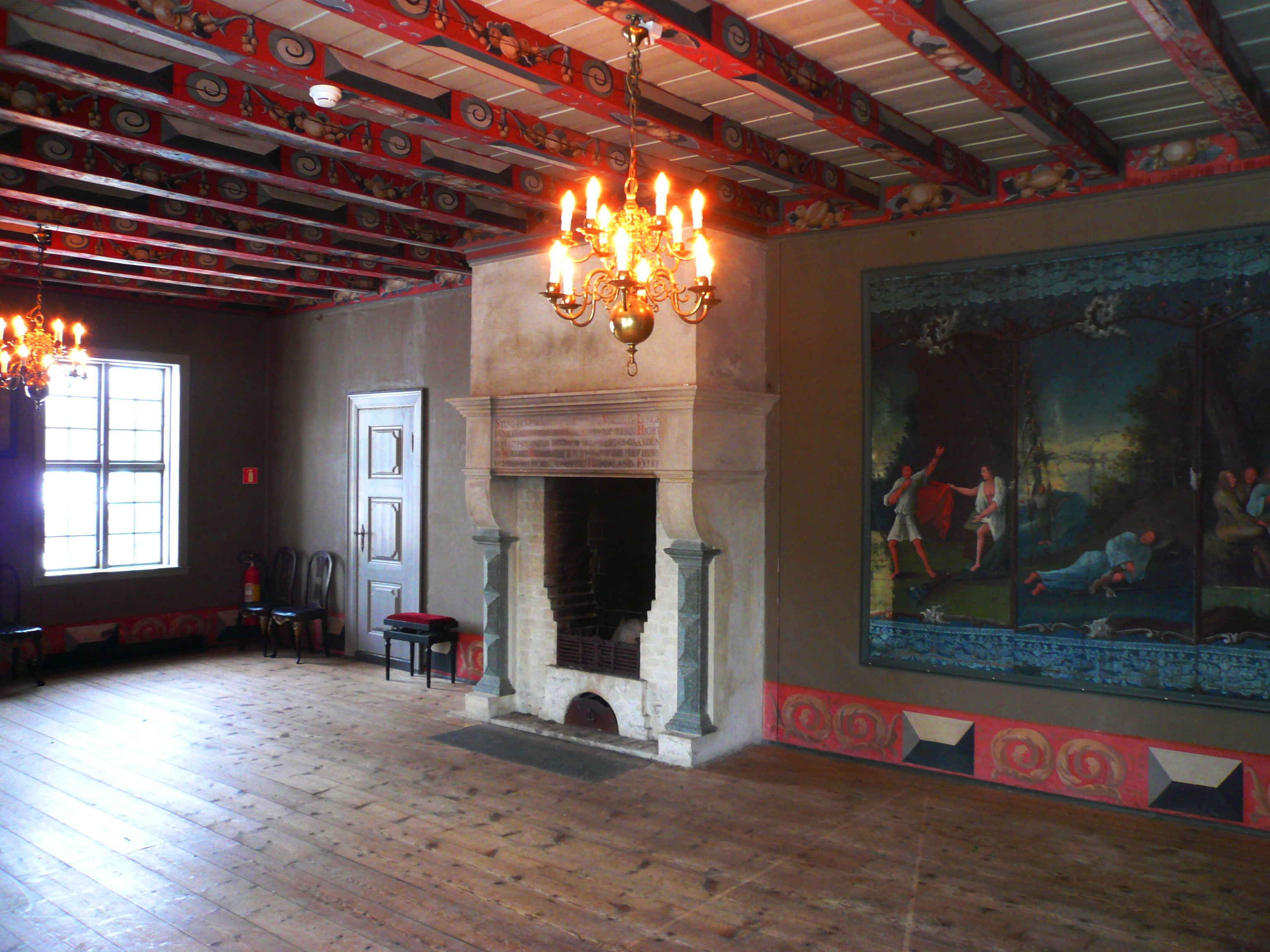 Stend hovedgård, Bergen, Norway.